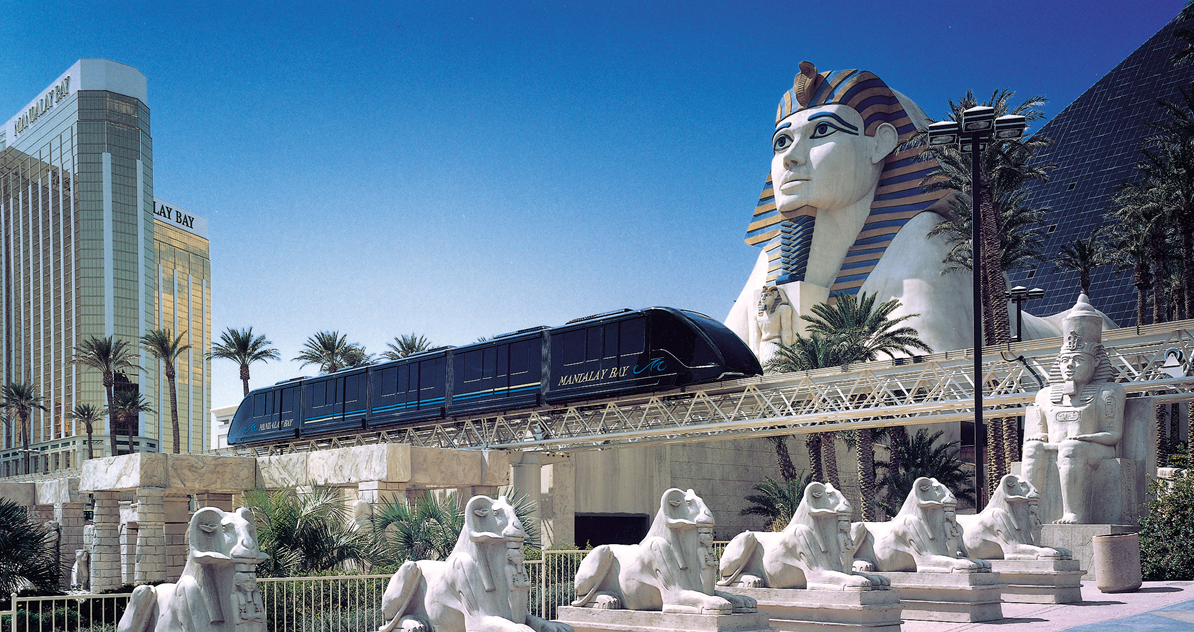 Mandalay Bay train in Las Vegas, Nevada, installed by Doppelmayr Cable Car. It connects 3 hotels: the Excalibur, Luxor and Mandalay Bay Resort hotel.